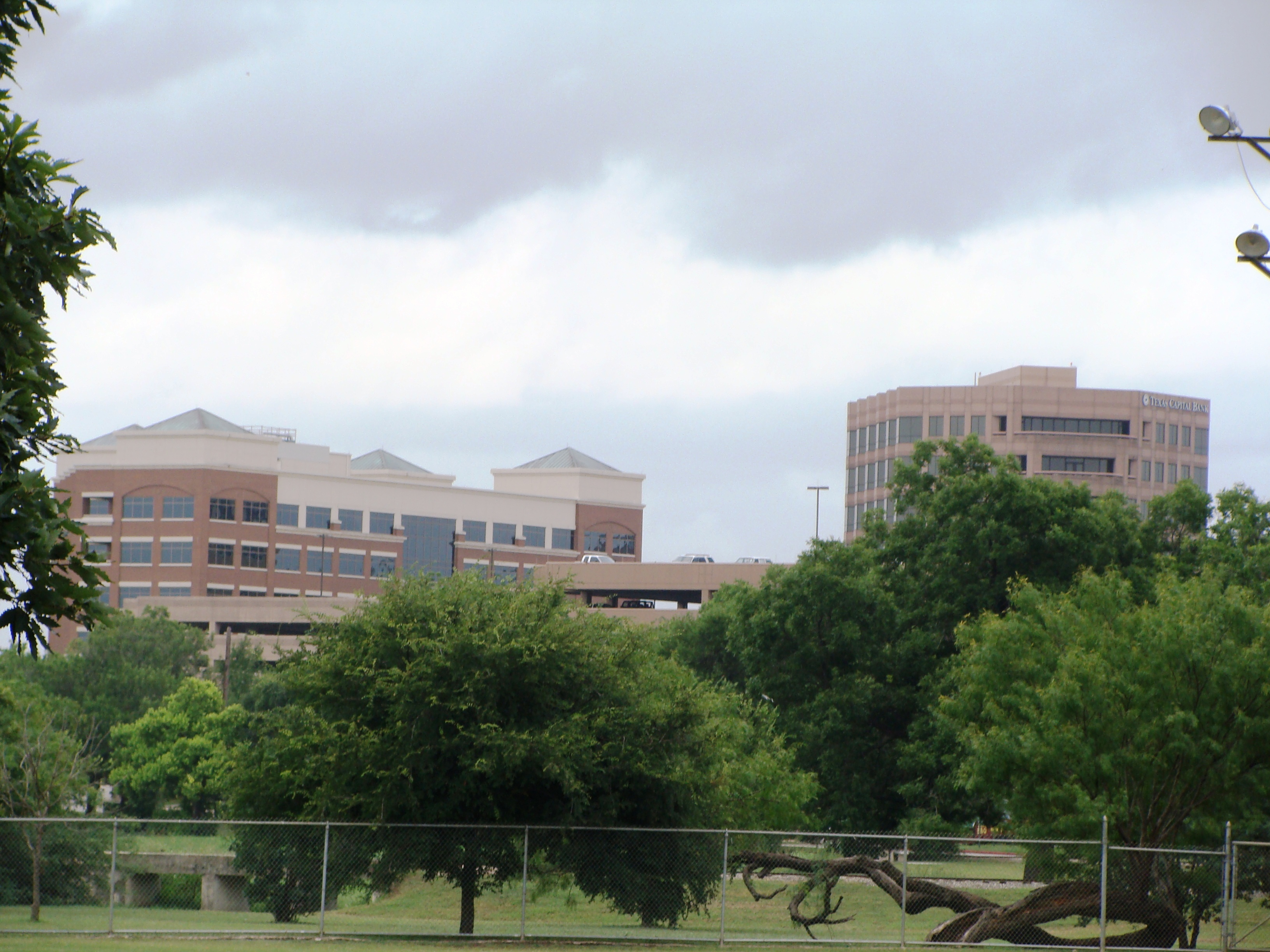 A view of some buildings in Alamo Heights, Texas, from Brackenridge Park.